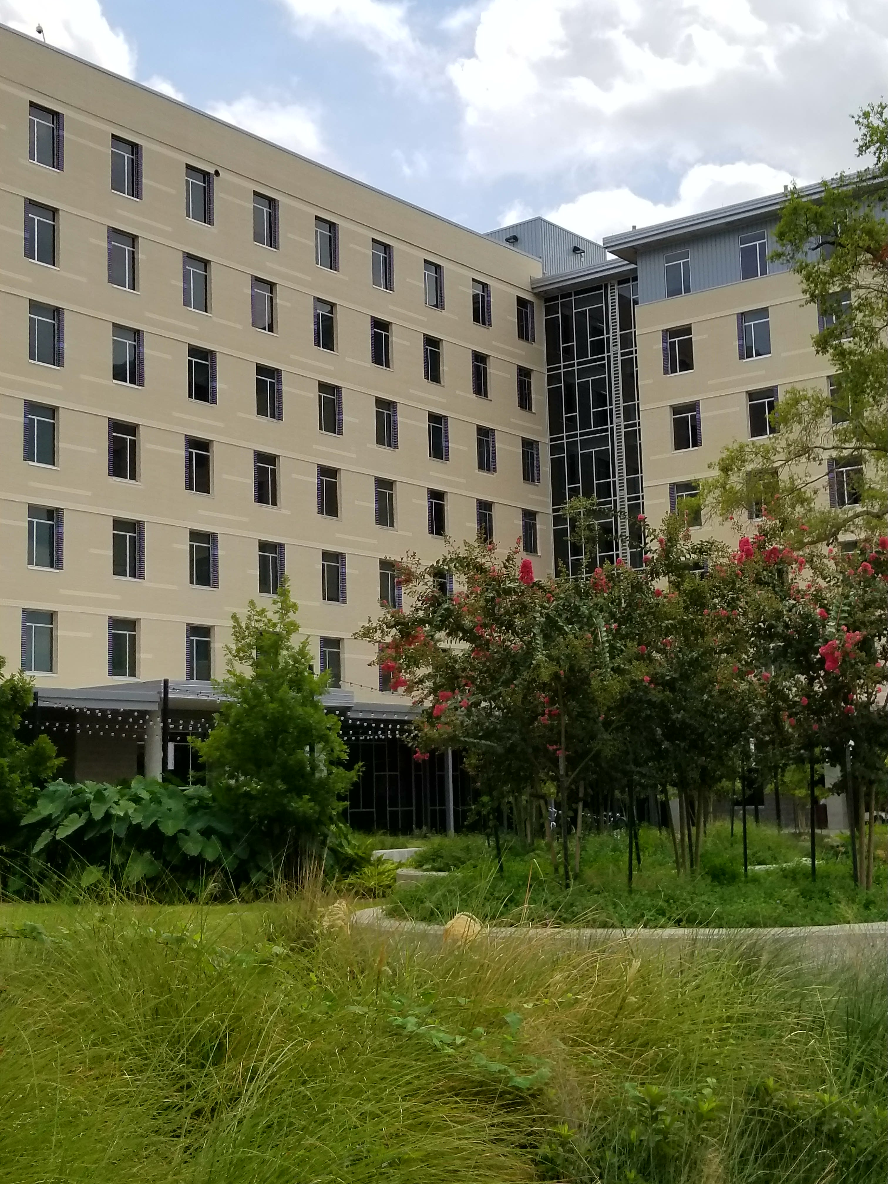 University Towers